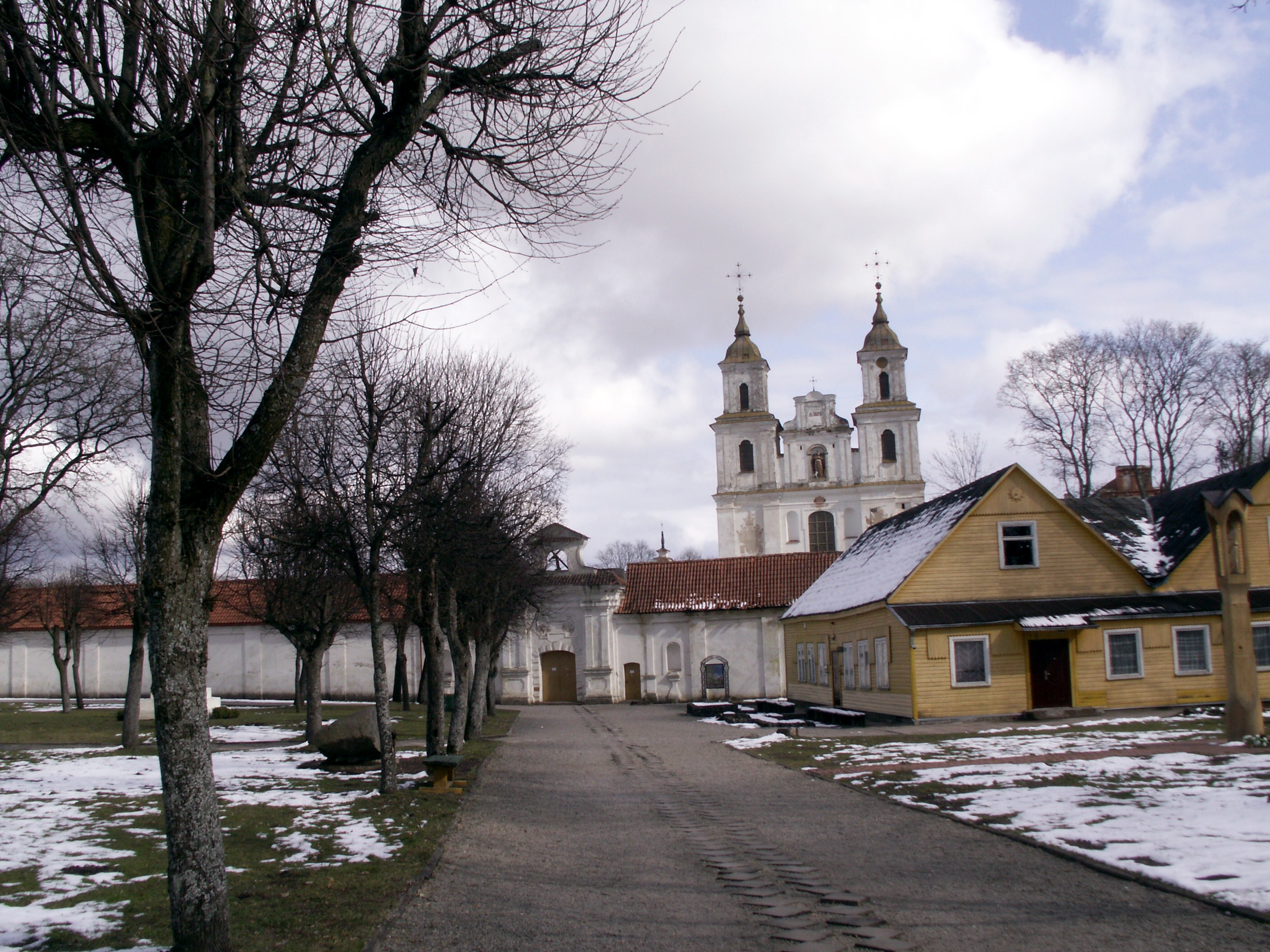 Tytvėnai Monastery.